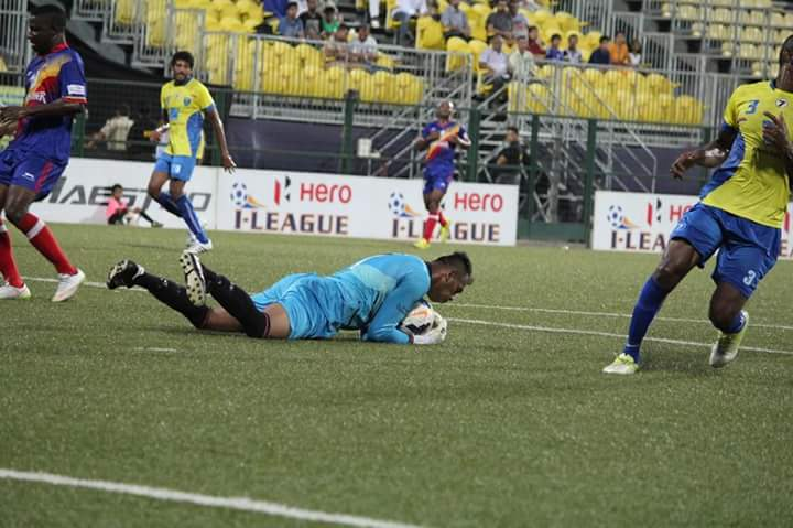 Kunal S